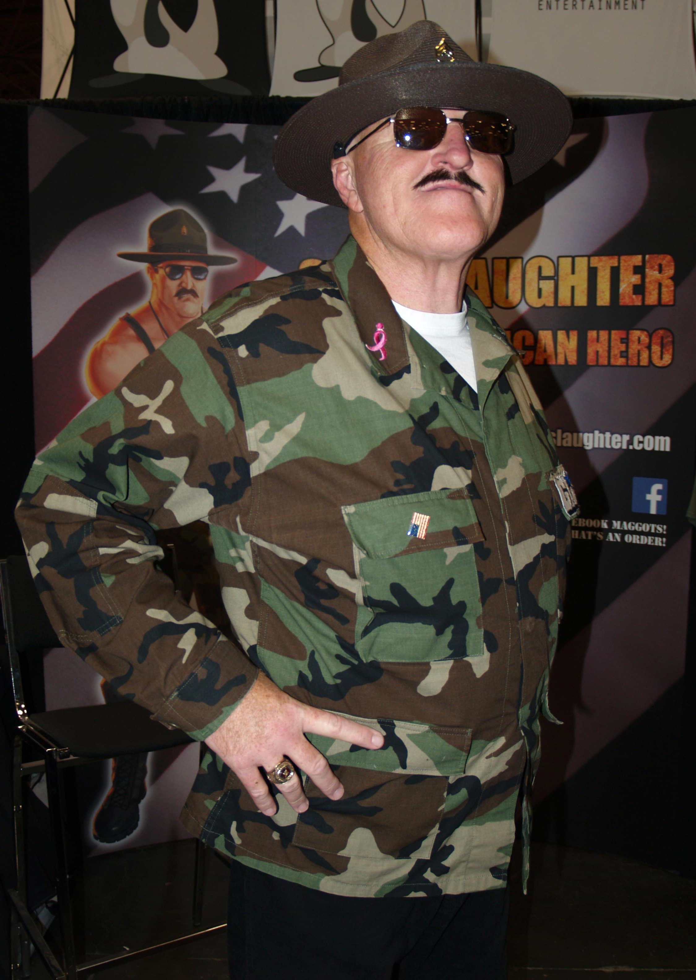 Professional wrestler Sgt. Slaughter on Friday, October 11, 2013 at the Jacob K. Javits Convention Center in Manhattan, Day 2 of the 2013 New York Comic Con. This photo was created by Luigi Novi. It is not in the public domain, and use of this file outside of the licensing terms is a copyright violation.